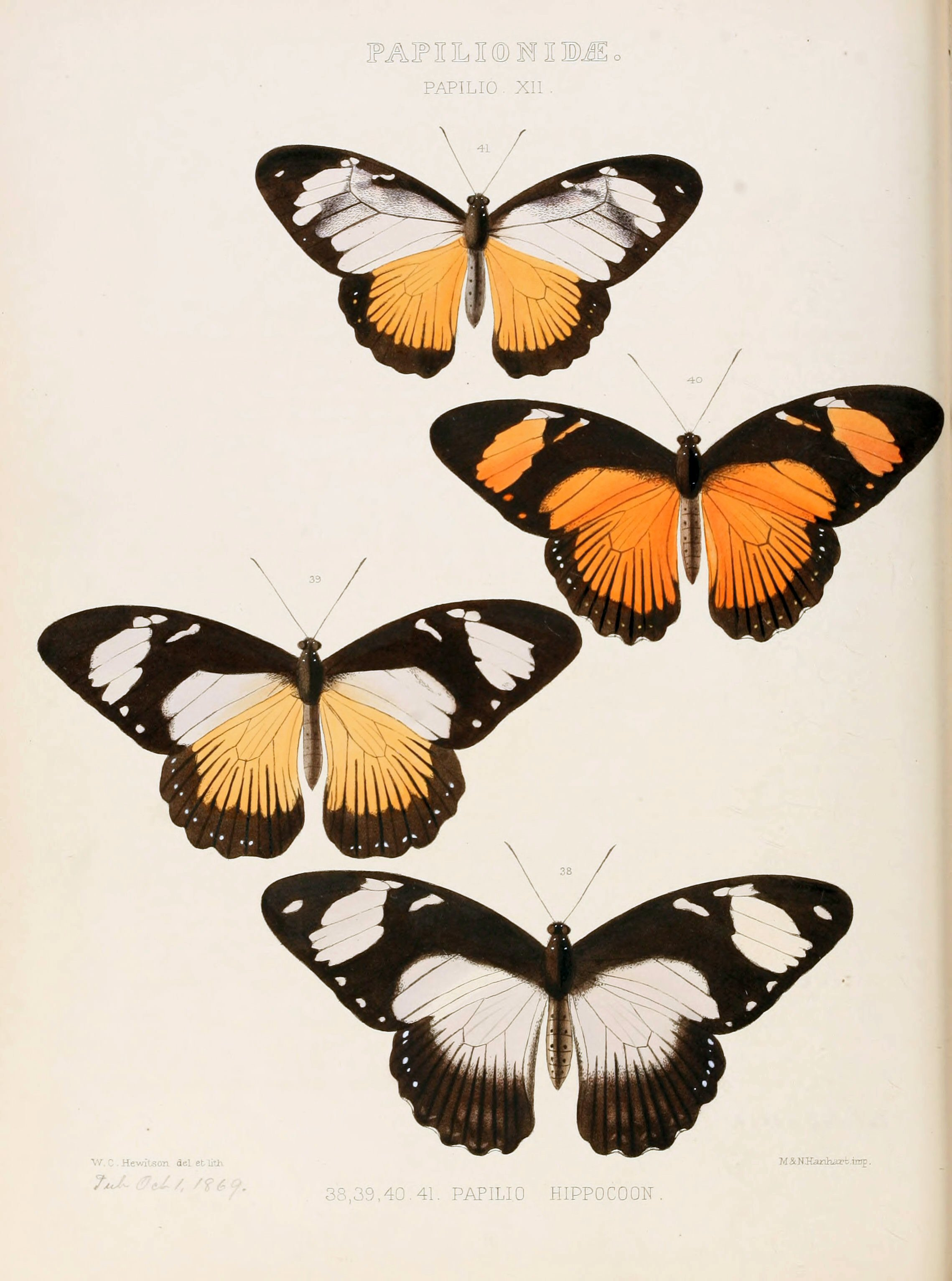 Plate: Papilio XII Papilio hippocoon. Figs. 38 (var. Hippocoon), 39 & 40 (unnamed vars.), 41 (var. Dyonisos). Accepted as Papilio dardanus Brown, 1776.